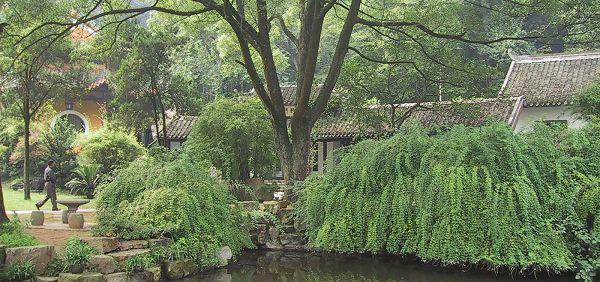 Pond at the Yuelu Academy, Hunan, China. This is a photograph of a pond at the Yuelu Academy of Classical Learning not far from Changsha in the Hunan province of China.